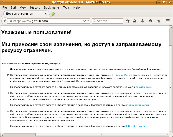 Text shown when trying to access the blocked GitHub homepage on December 2, 2014 in Russia due to hosted information about suicide. The content of the page consists of 4 reasons why the website breaks laws under the Russian Federation, and why therefore, the contents of the website are blocked.